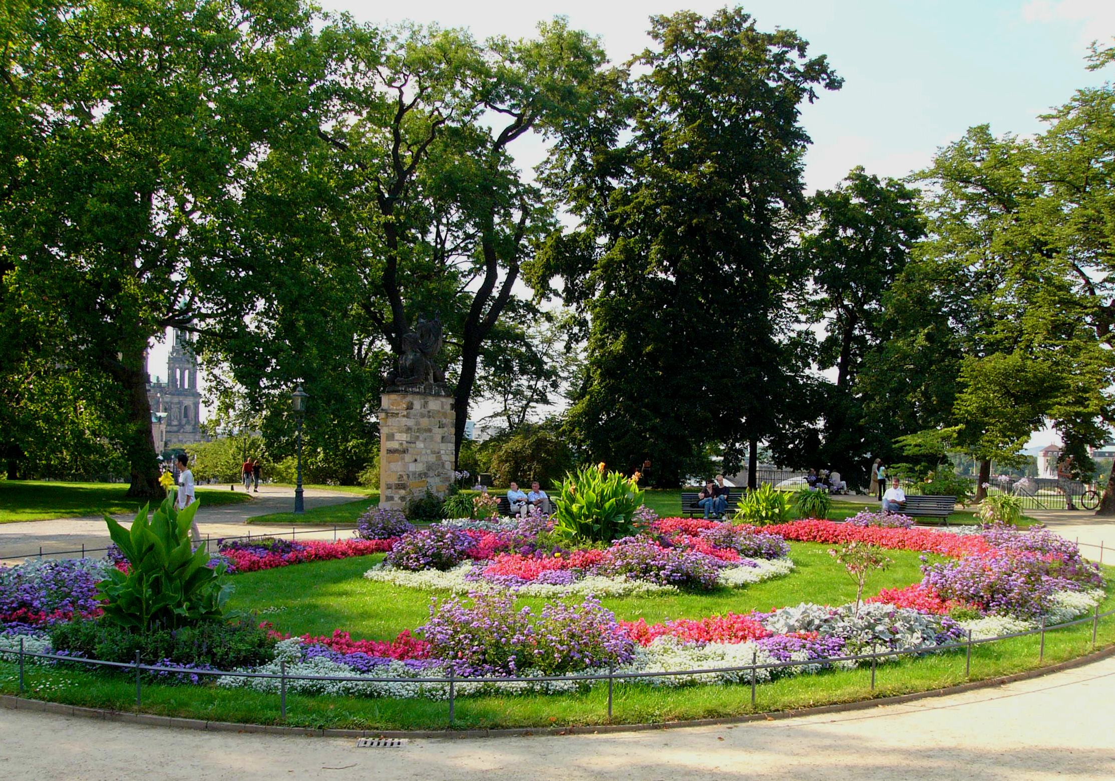 The eastern part of Brühl's Terrace is called Brühl's Garden in Dresden, Saxony, Germany.